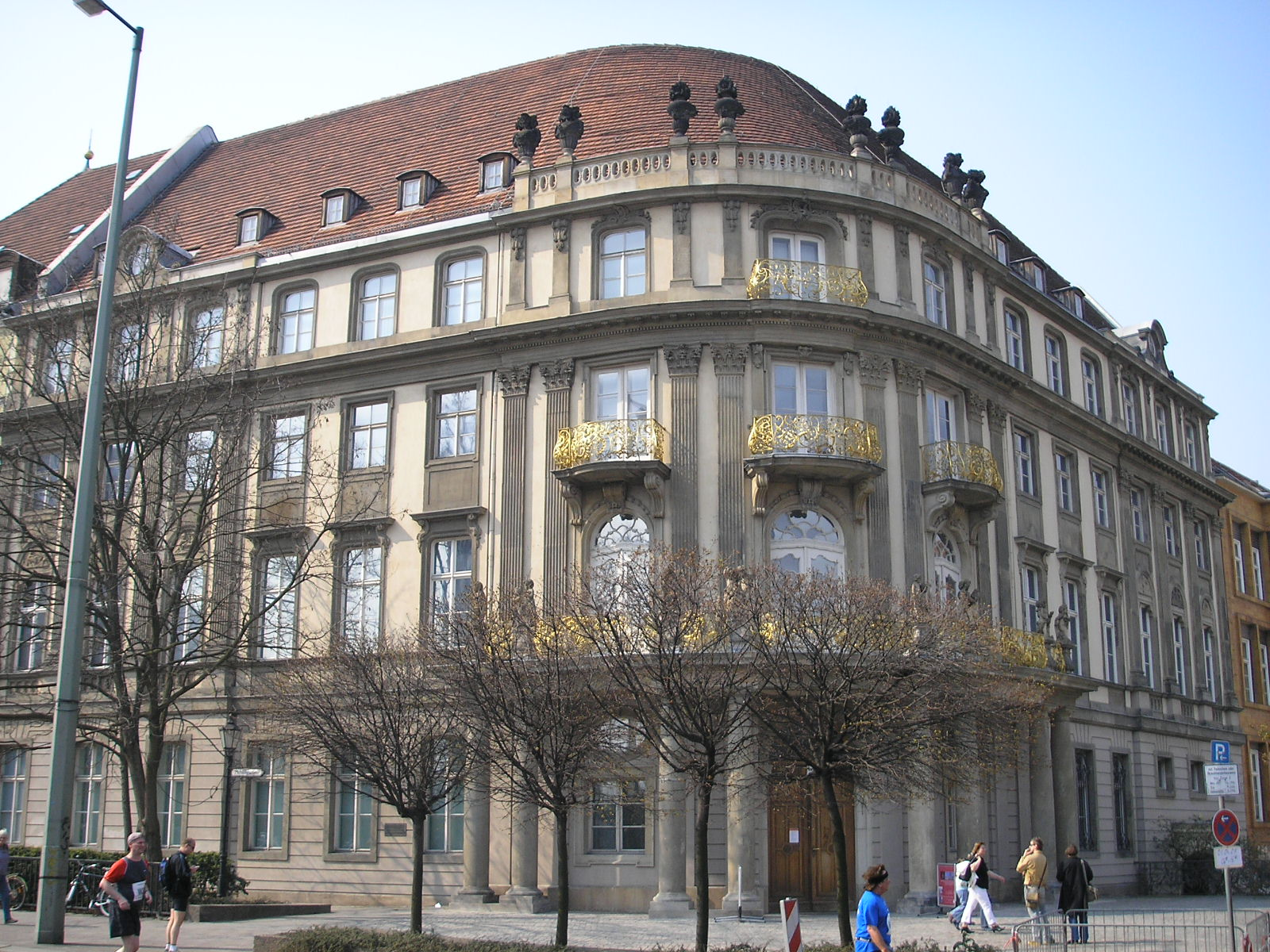 The Ephraim-Palais in Berlin, located in the Nikolaiviertel.